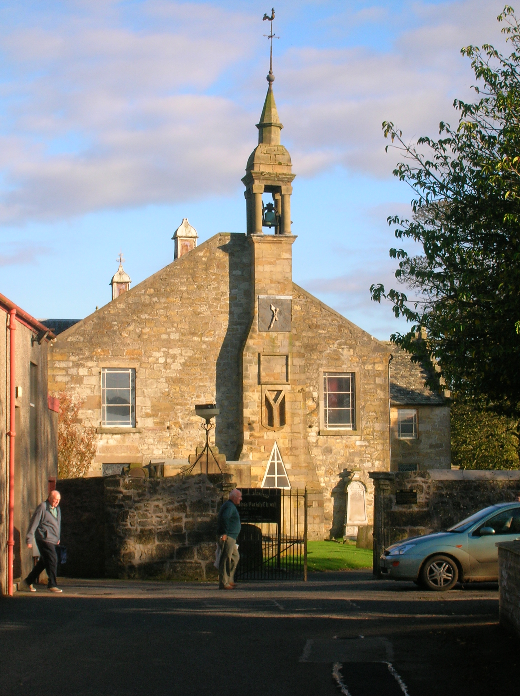 Stewarton's Laigh Kirk, East Ayrshire, Scotland.